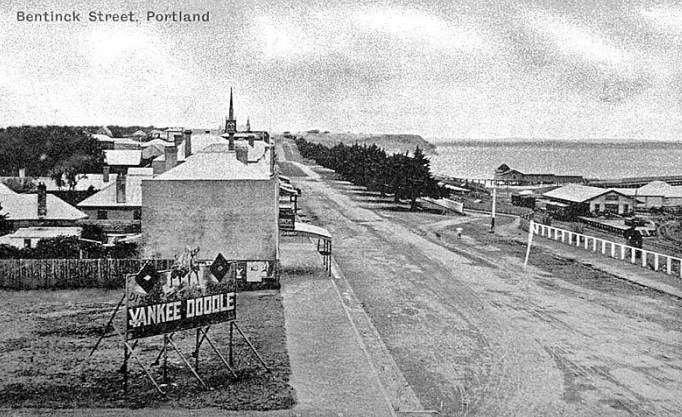 Bentinck Street looking North from Gawler Street. Note the old railyards, which is now a picturesque lawn area.